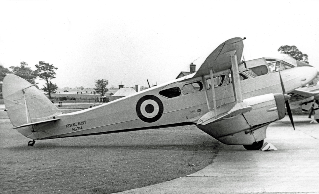 DH.89 Dominie HG714 of the Royal Navy at RNAS Stretton in 1955